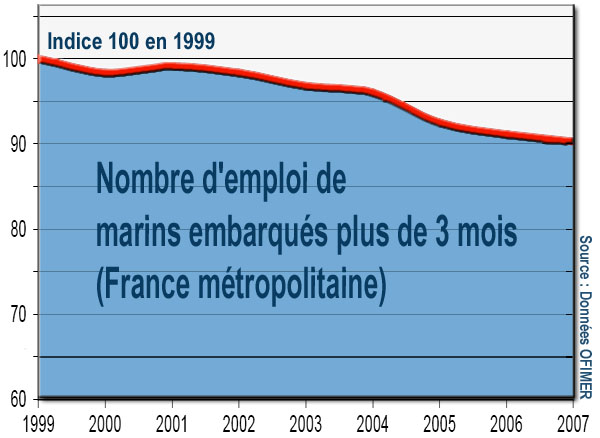 Graph showing the number of jobs (on board, in France) in the field of marine fisheries for almost 10 years. (The quantity of fish landed in France has also declined slightly, but its consumption has increased on the contrary).